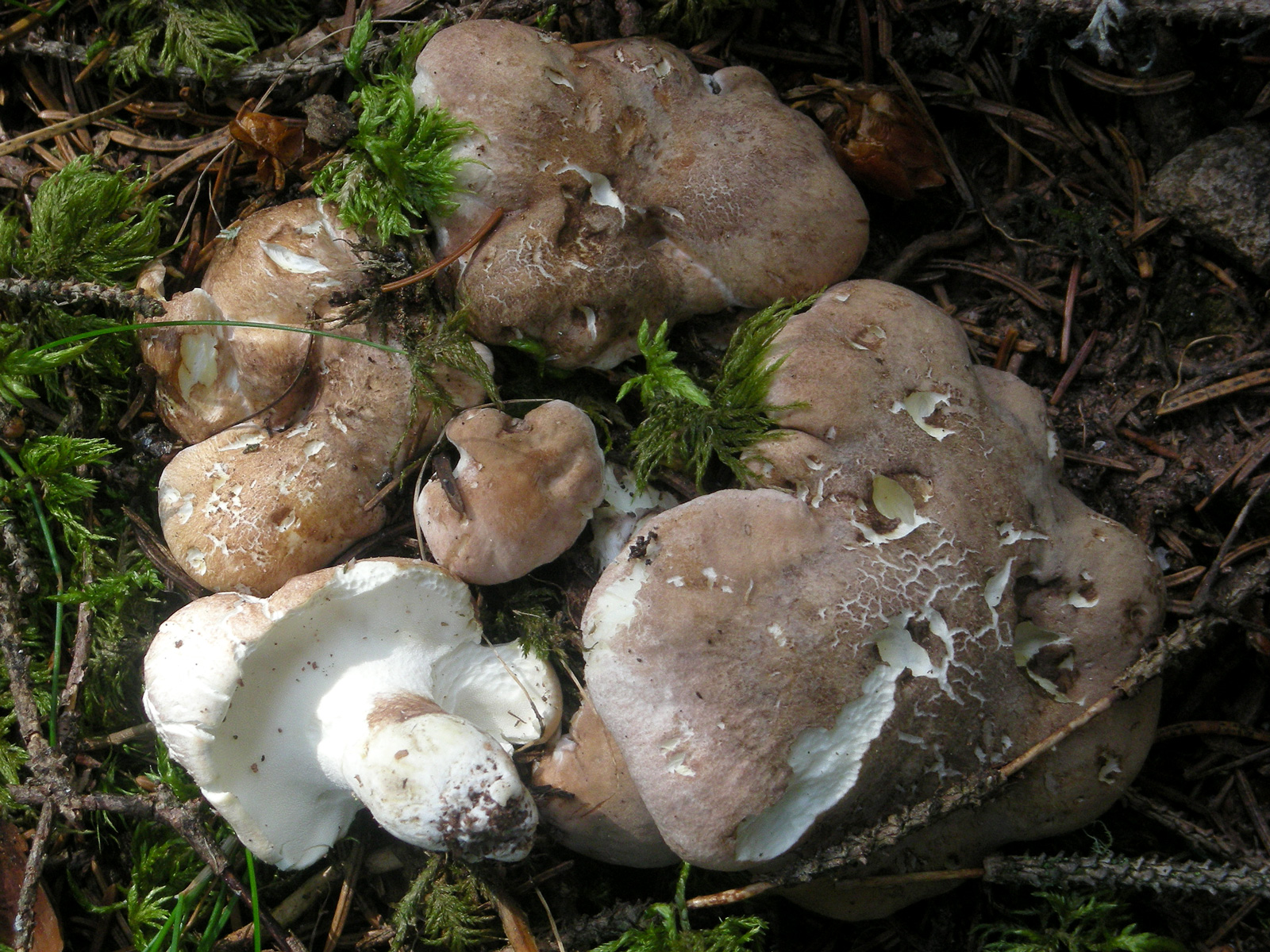 Albatrellus cristatus - Bellamonte (TN), Italy - 08/2008